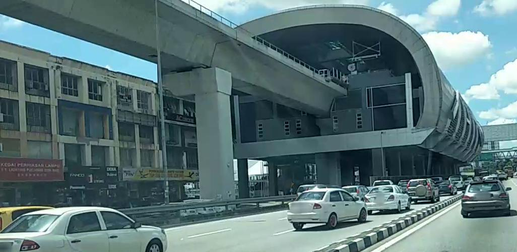 PBP LRT station Outview